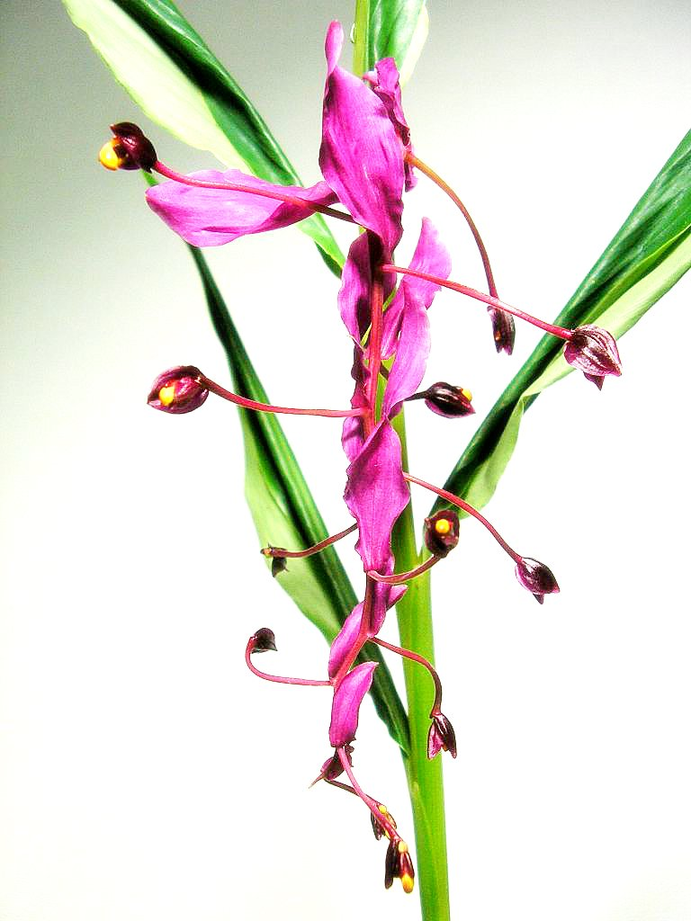 Flowers of globba, from the Zingiberaceae (ginger) family.